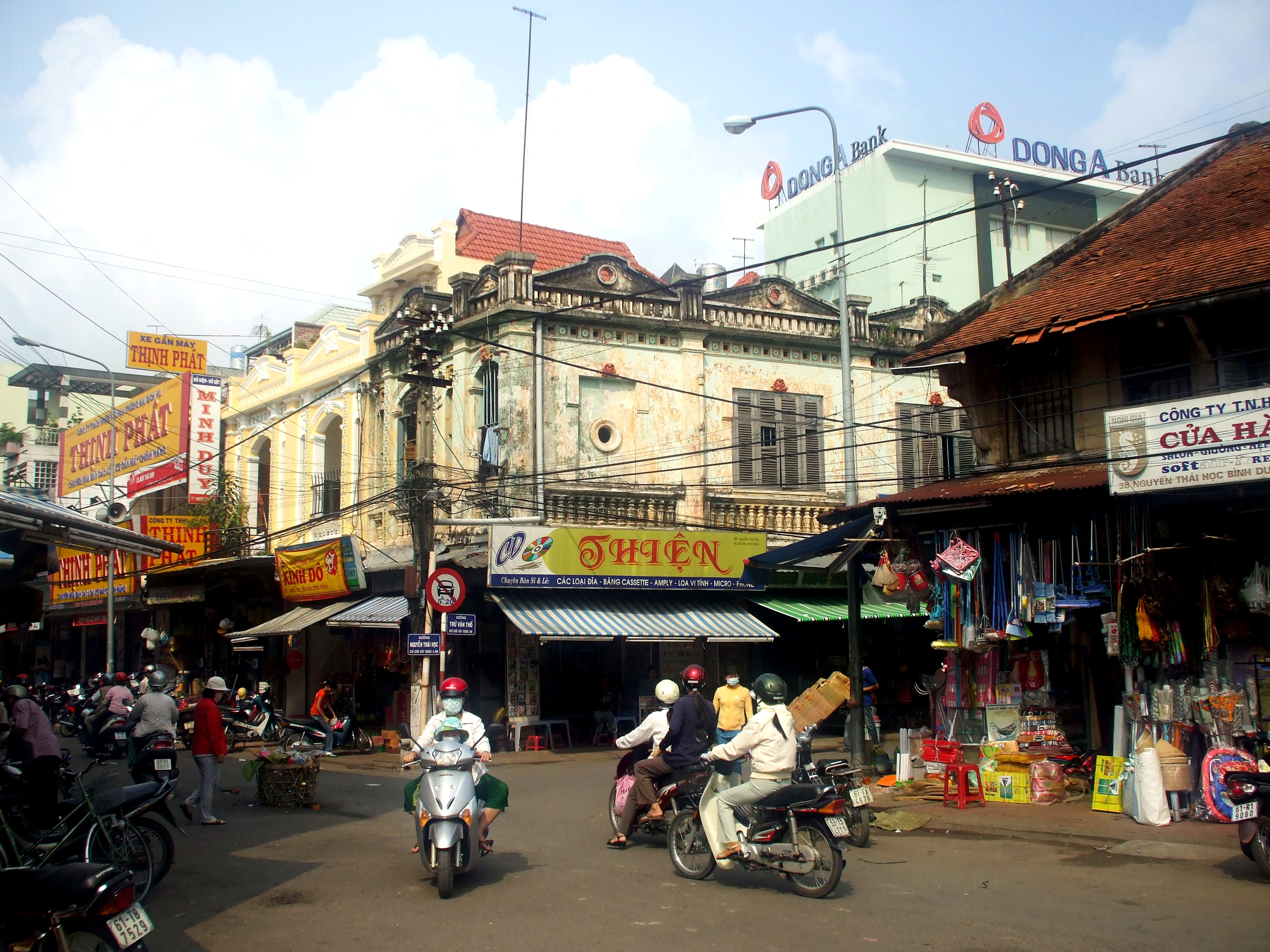 Một góc chợ Thủ Dầu Một thuộc thành phố Thủ Dầu Một, tỉnh Bình Dương, Việt Nam.